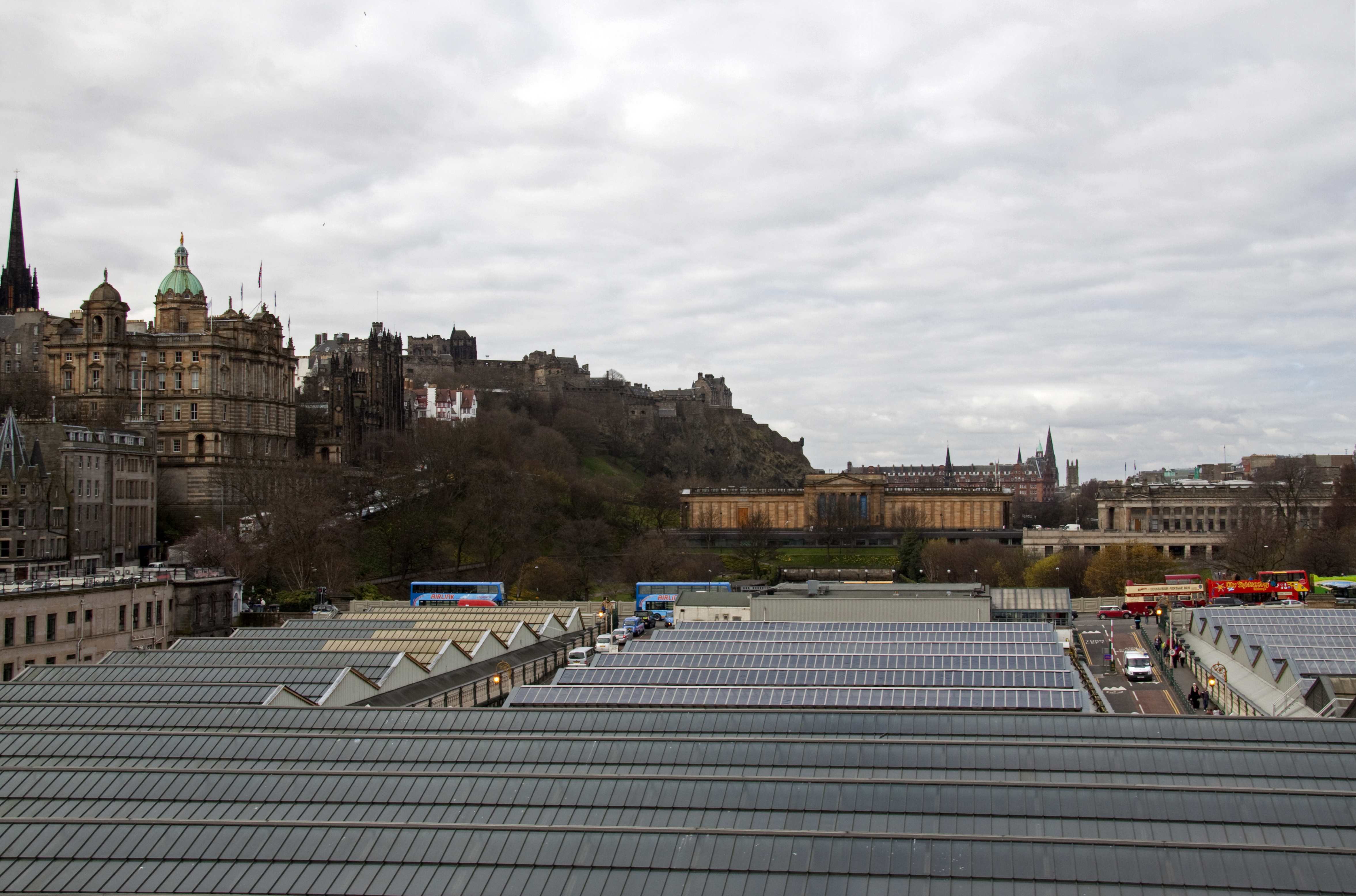 The roof of Waverley station dominates the valley floor in the centre of Edinburgh